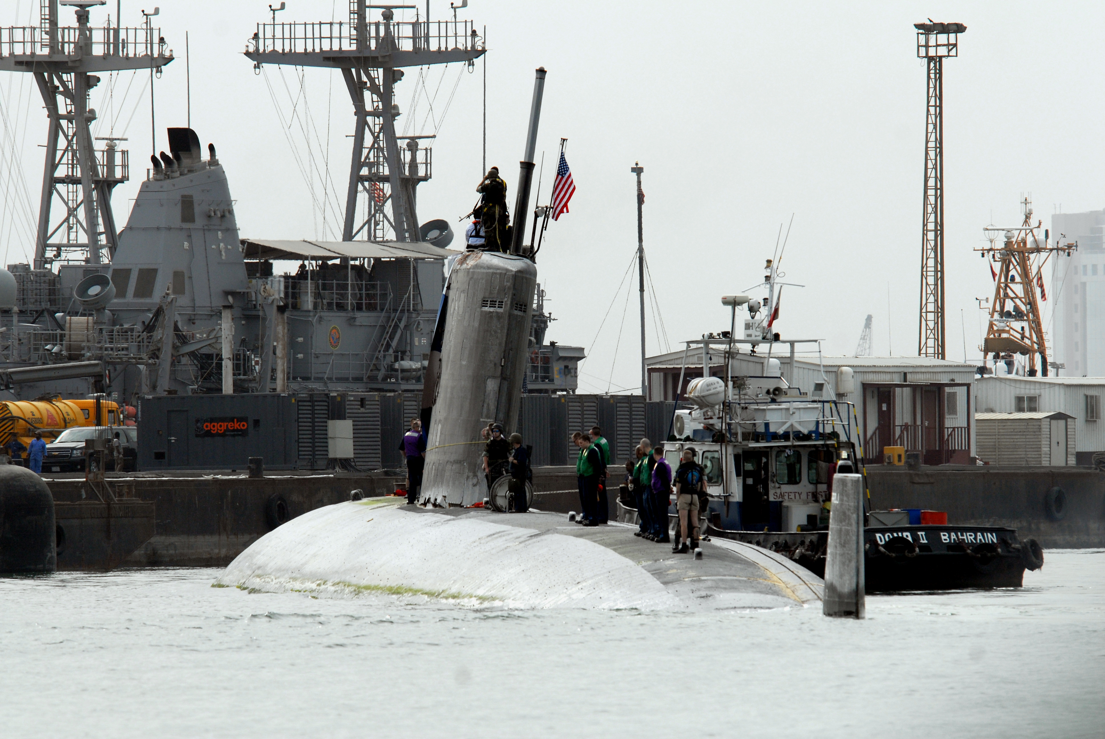 090321-N-9909C-993 BAHRAIN - The Los Angeles-class attack submarine USS Hartford (SSN 768) arrives pier side at Mina Salman pier in Bahrain where U.S. Navy engineers and inspection teams will asses and evaluate damage that resulted from a collision with the amphibious transport dock ship USS New Orleans (LPD 18) in the Strait of Hormuz March 20. Overall damage to both ships is being evaluated. The incident remains under investigation. Hartford is deployed to the U.S. 5th fleet area of responsibility to support maritime security operations.